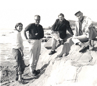 E. Lederberg, G. Stent, S. Brenner, J. Lederberg, 1965. The original photo is owned by the Esther M. Zimmer Lederberg Estate. With the permission of that Estate's Trustee, Matthew Simon, I have adapted the photo for free use.